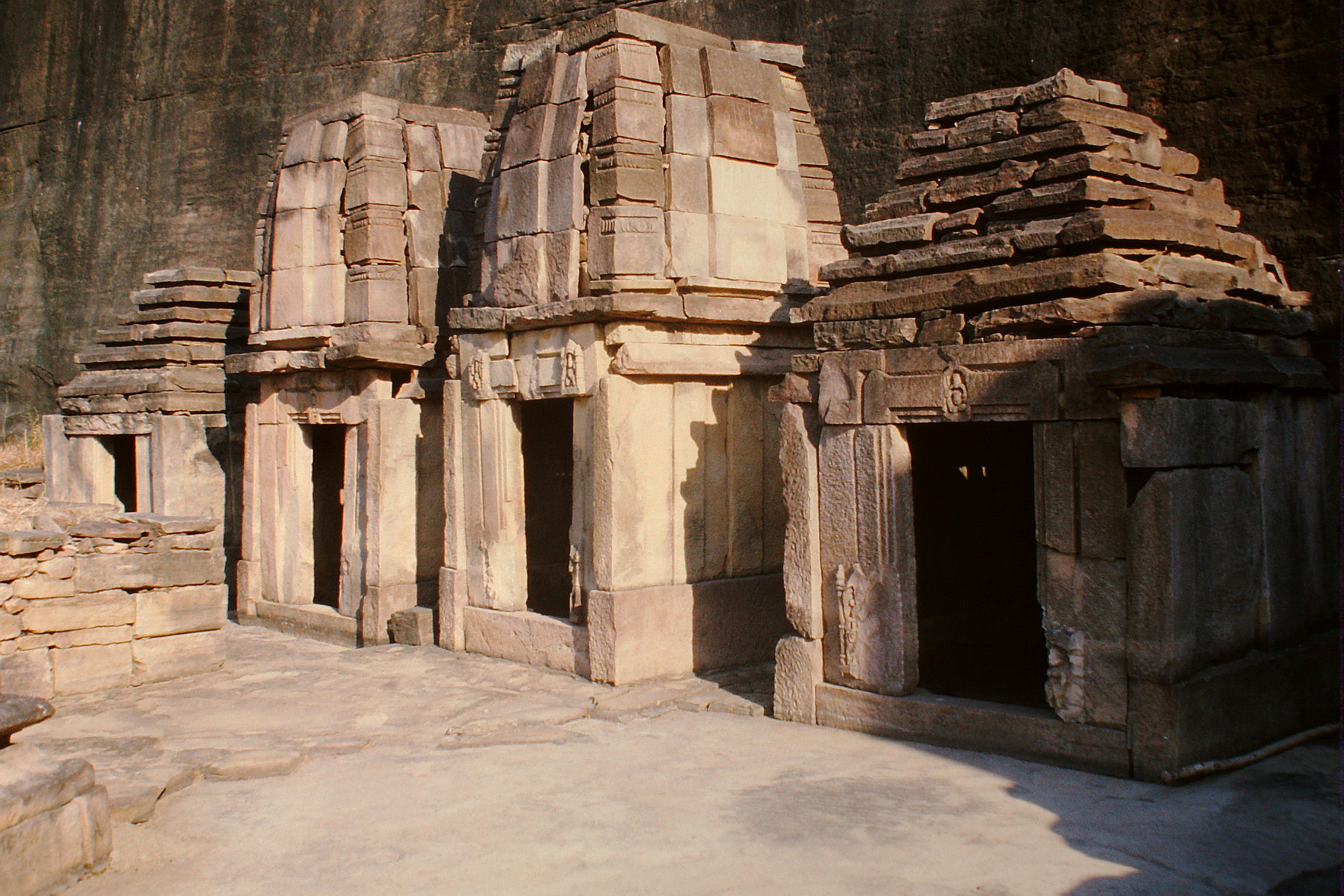 Naresar, temple at road